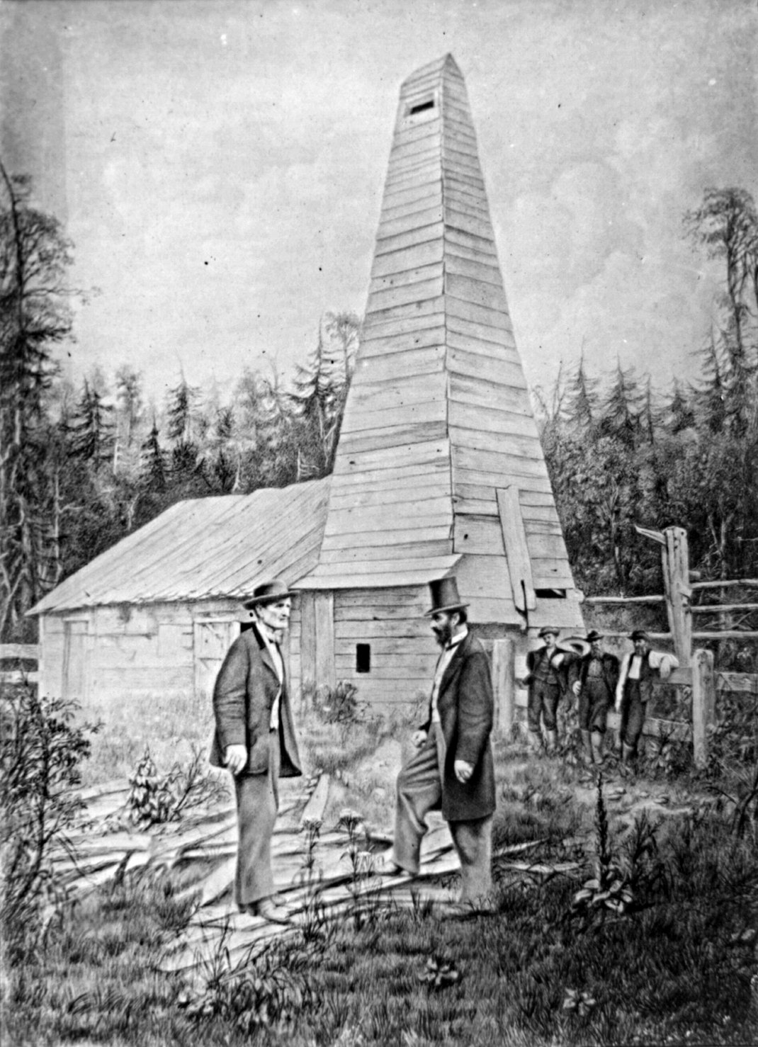 "Reproduction, copyrighted in 1890, of a retouched photograph showing Edwin L. Drake, to the right, and the Drake Well in the background, in Titusville, Pennsylvania, where the first commercial well was drilled in 1859 to find oil."